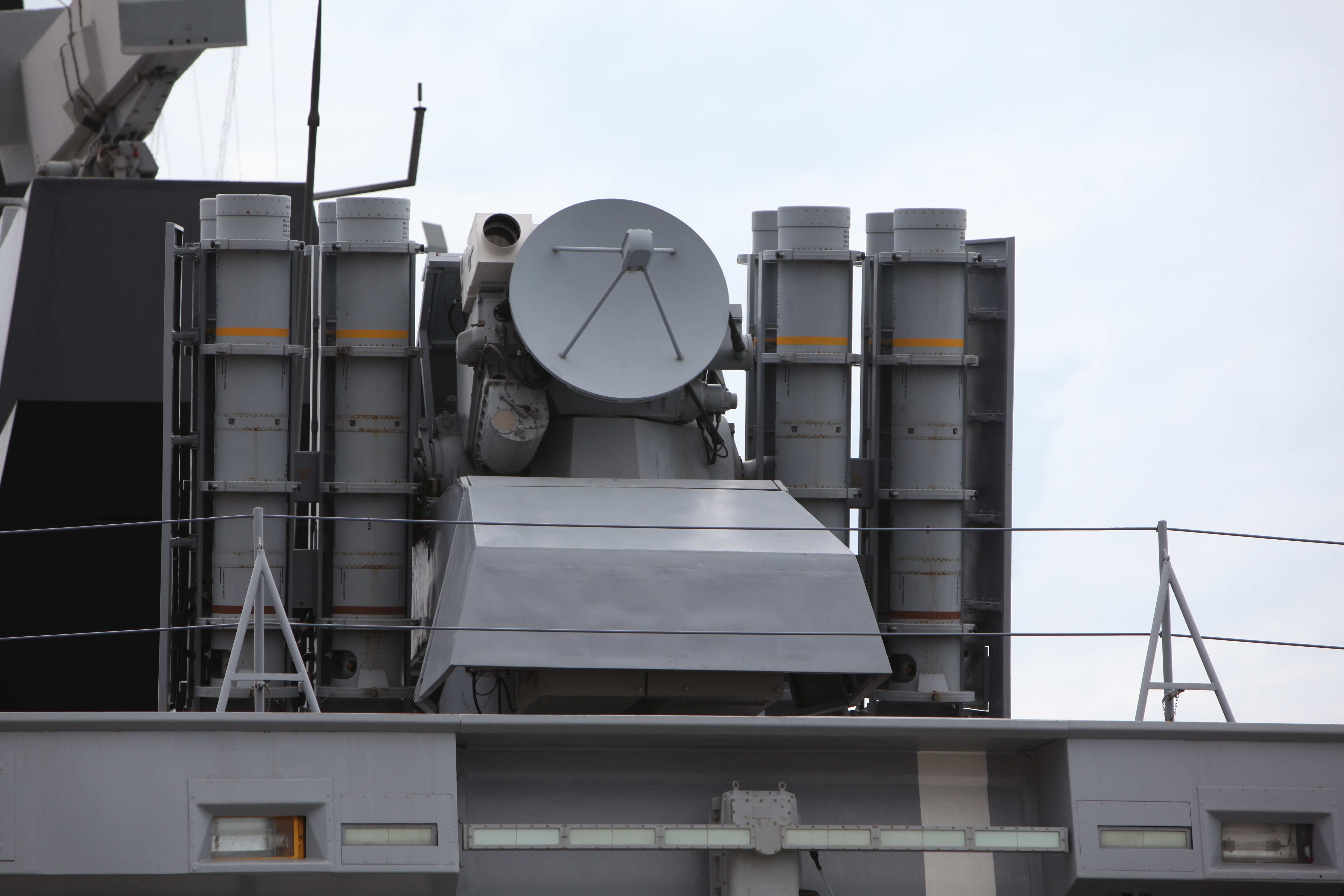 The Crotale launcher of the stealth frigate Surcouf.